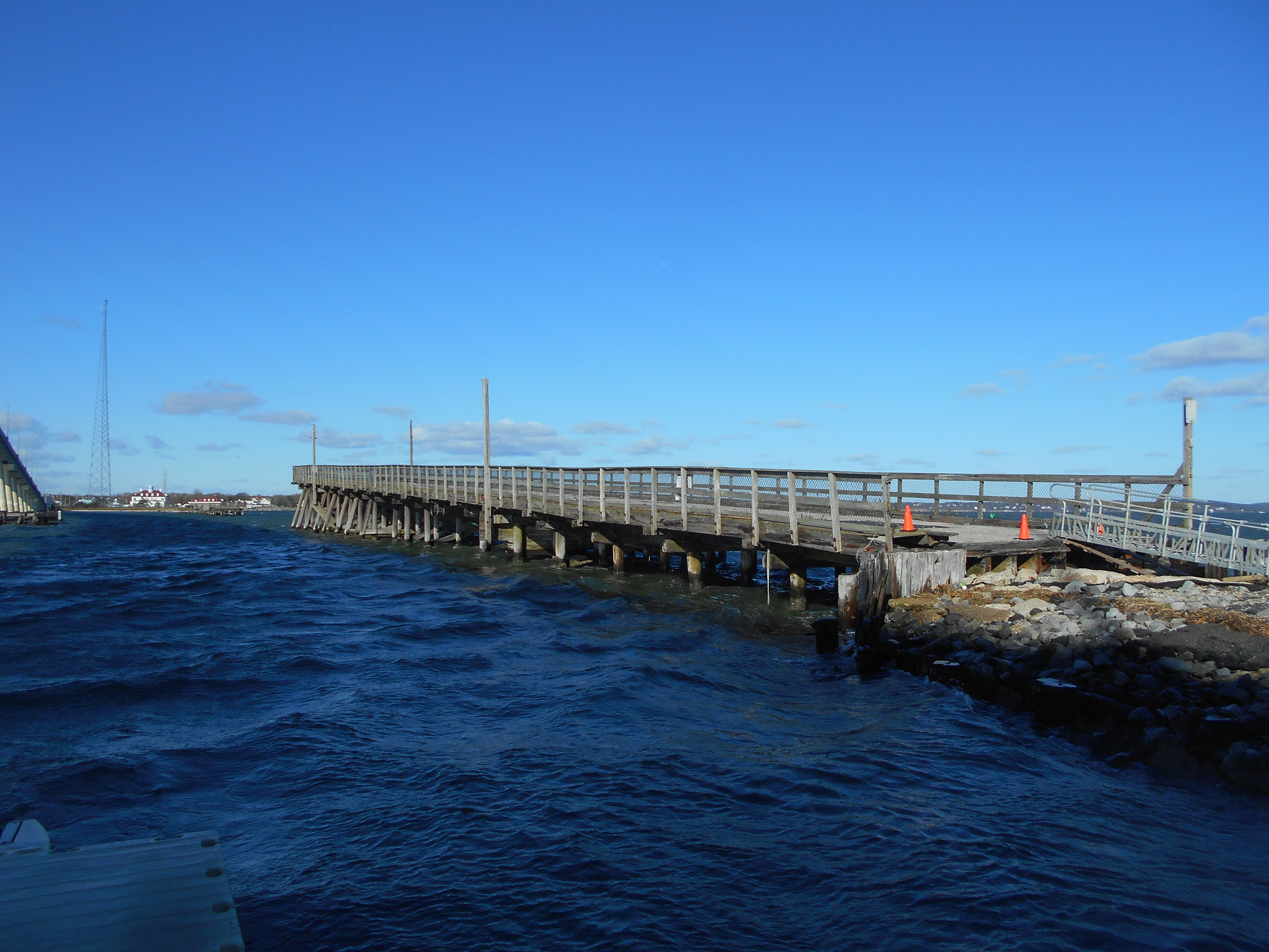 The former Ponquogue Bridge in Ponquogue, New York in November 2014.